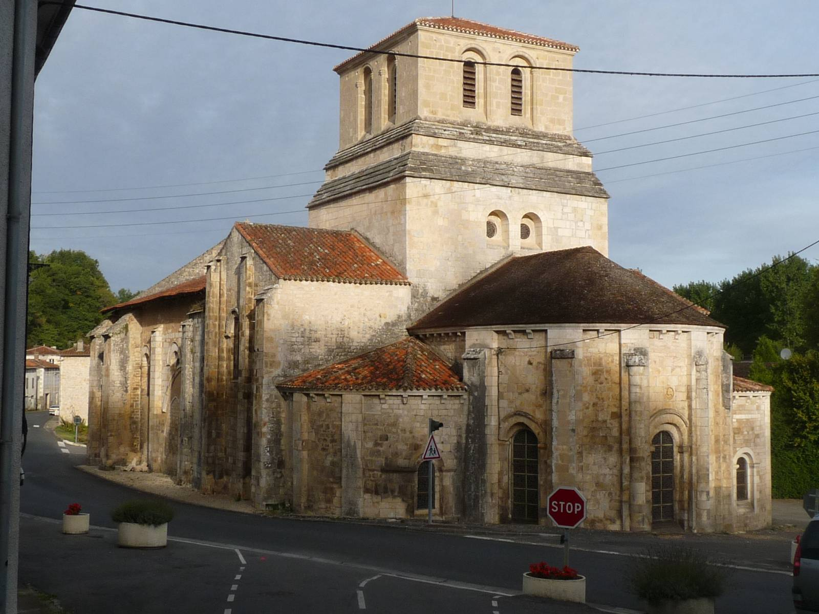 church of Cellefrouin, Charente, SW France